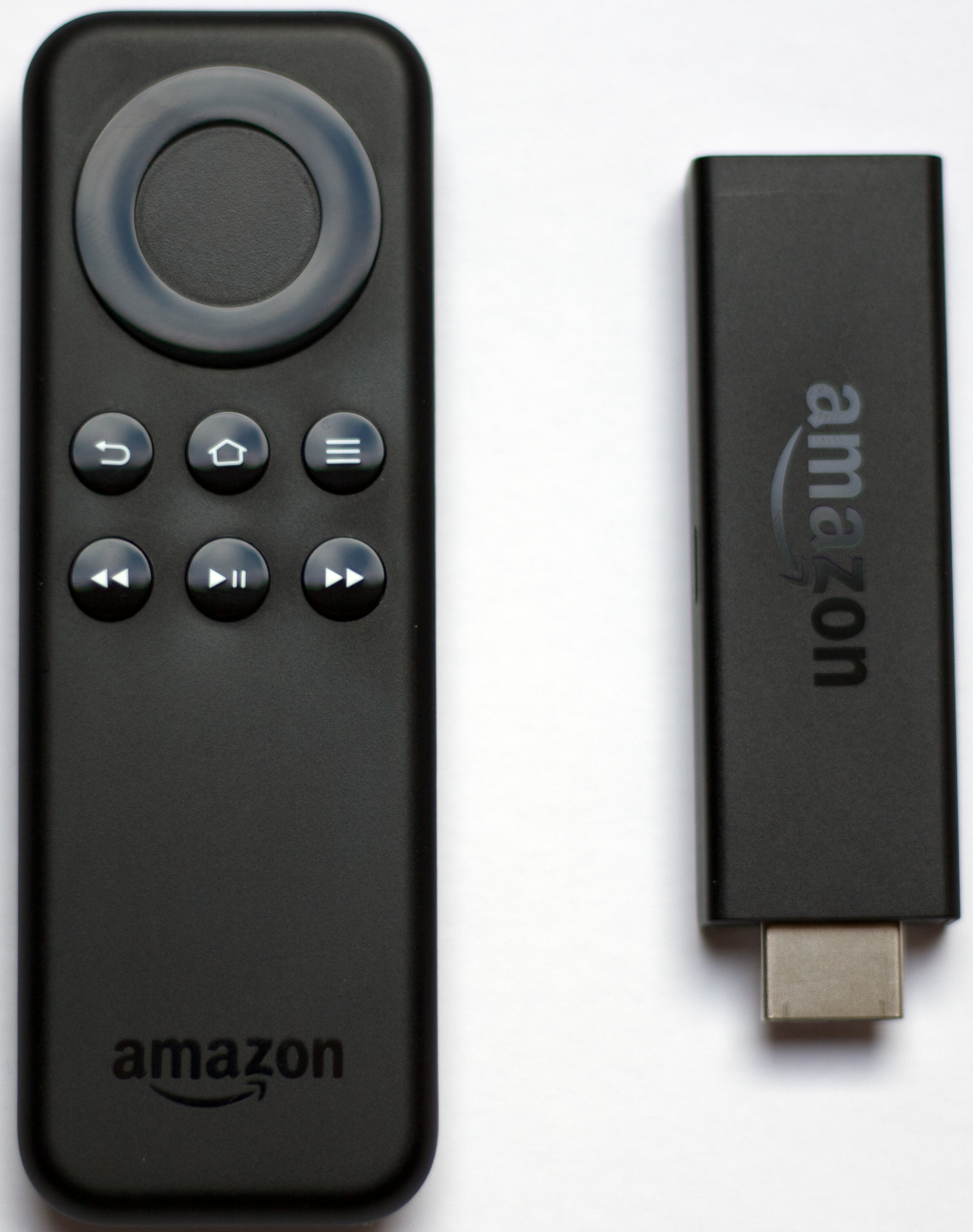 Fire-TV Stick and Remote